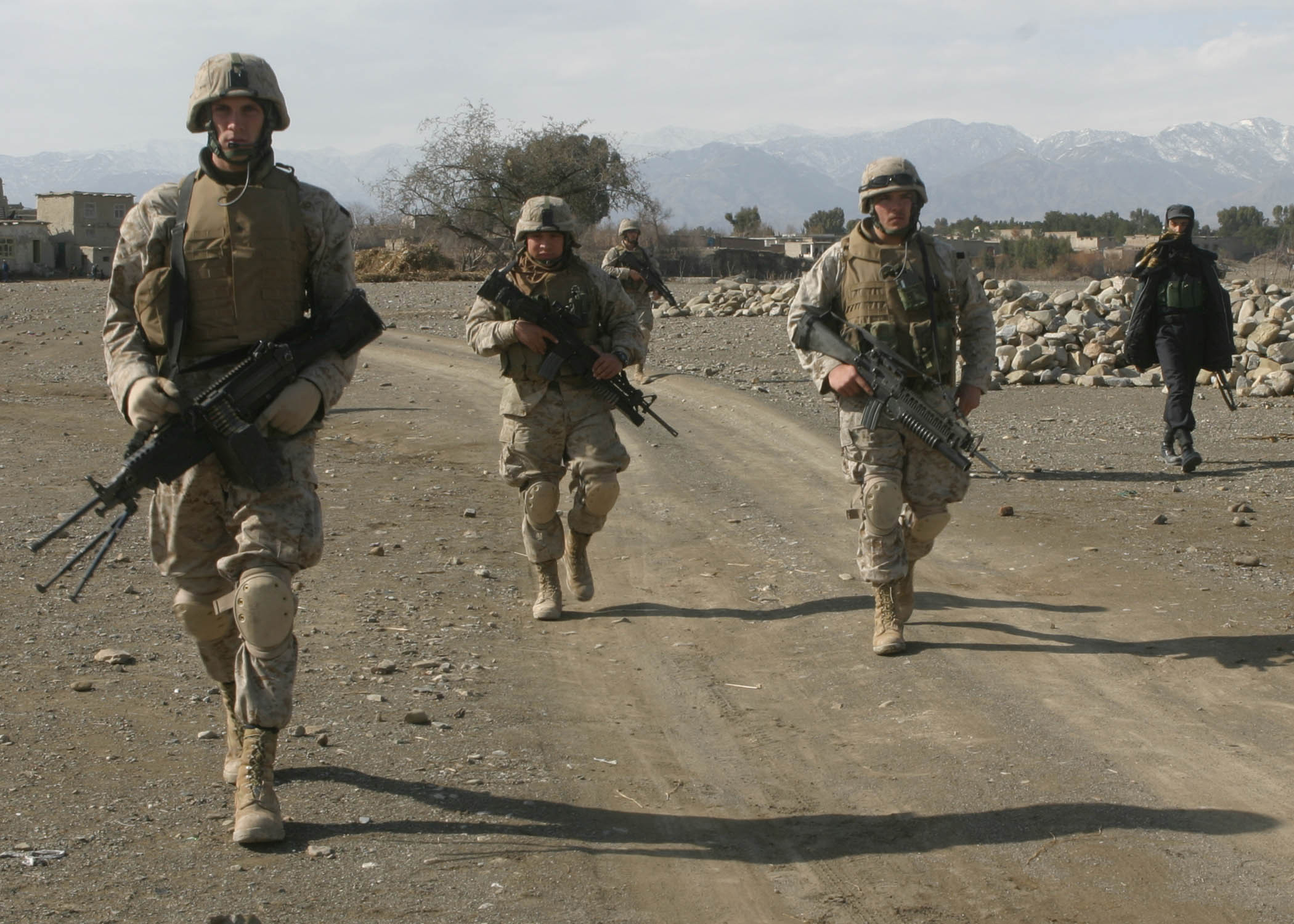 U.S. Marines patrol a road in Khowst Province, Afghanistan, on Feb. 13, 2005. The Marines are assigned to Headquarters and Service Company, 3rd Battalion, 3rd Marines, and are conducting security and stabilization operations in the province.